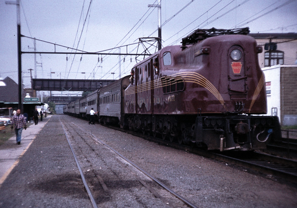 NJ Transit GG1 #4877 powering a commuter train at South Amboy NJ 1981. Scanned from 35mm slide.